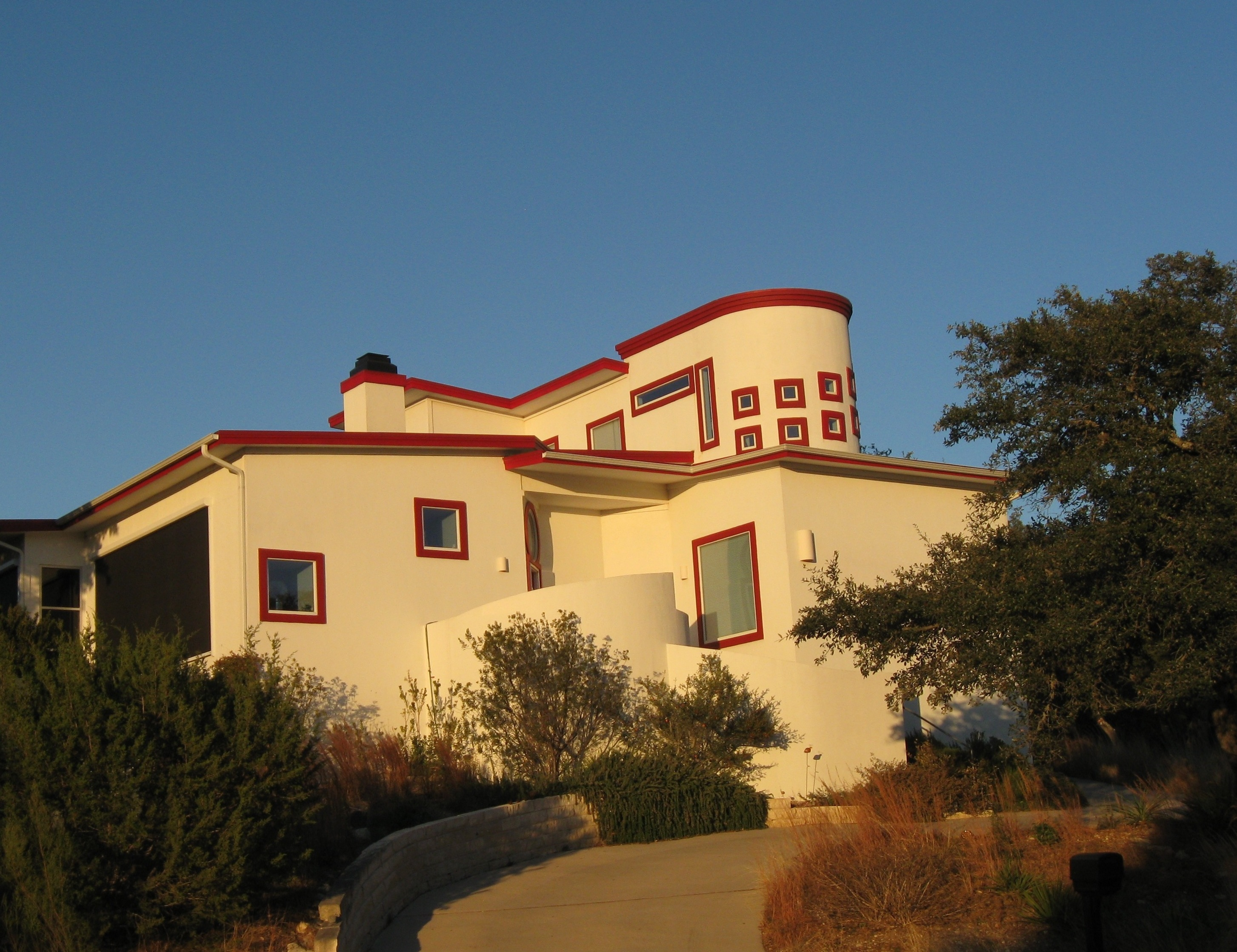 House in Lago Vista, Texas